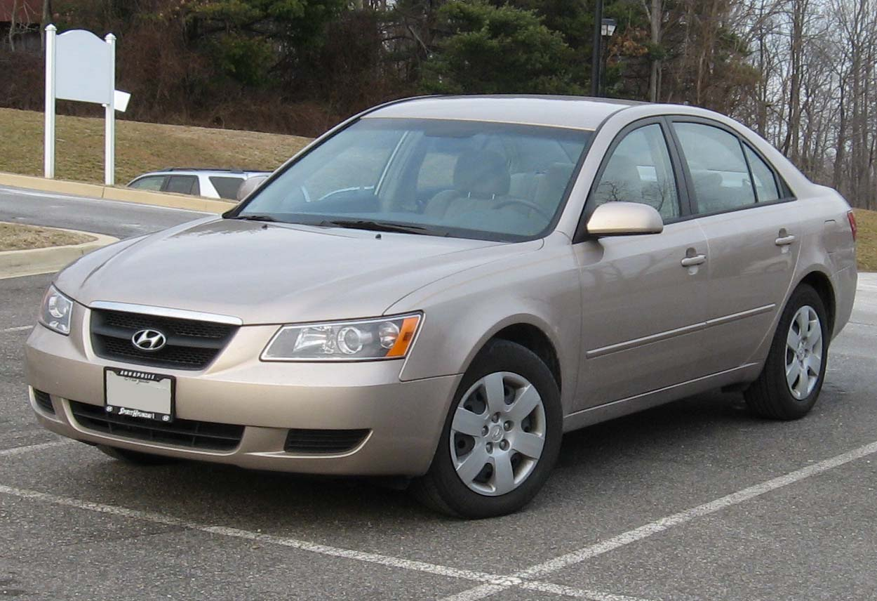 2006-2007 Hyundai Sonata photographed in USA.